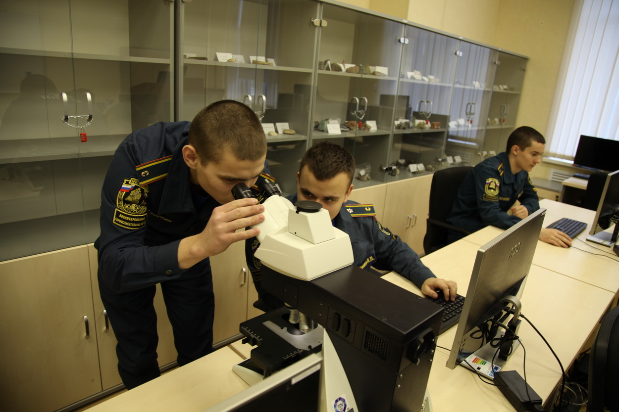 mining engineering